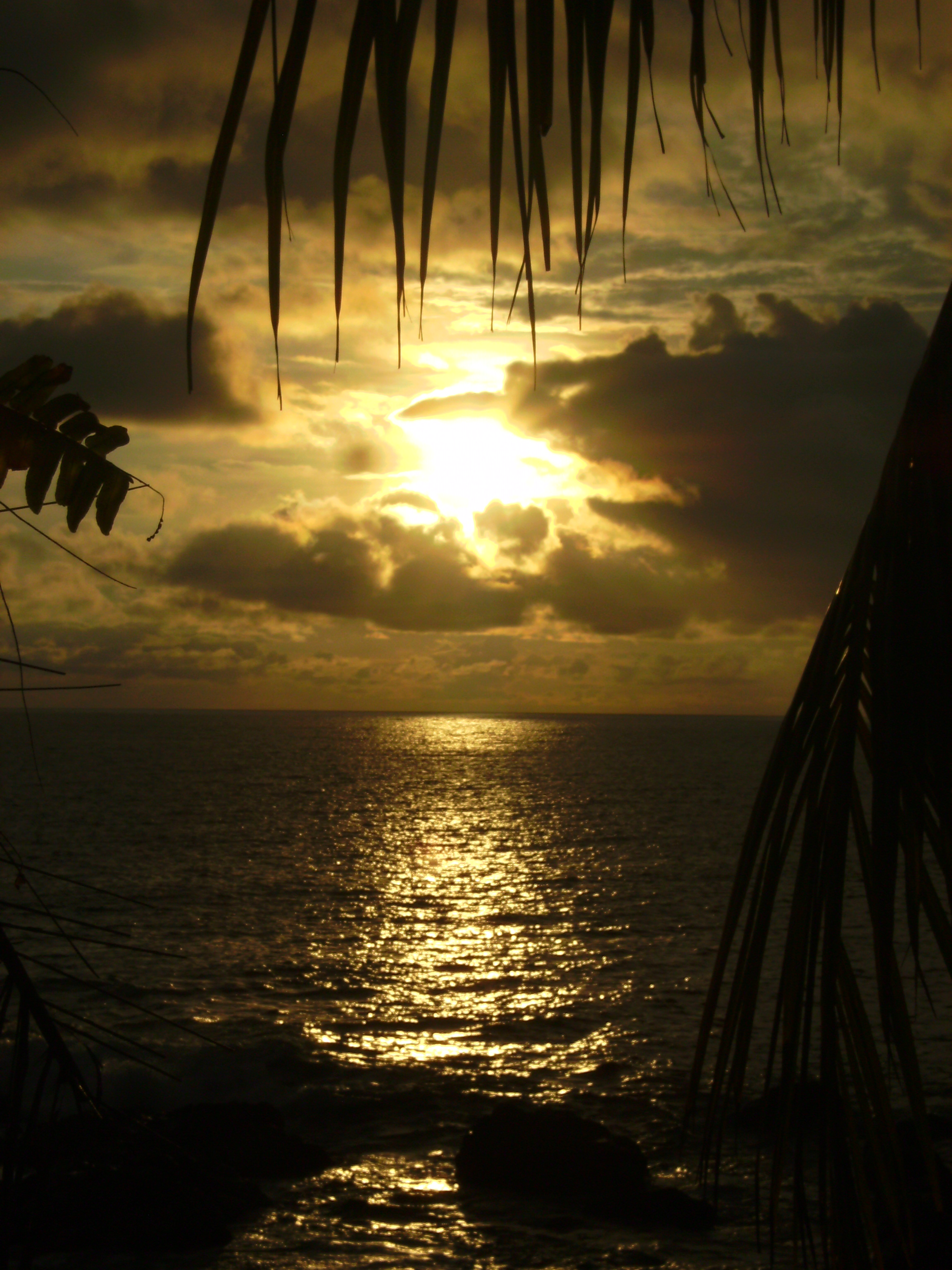 Sunset on the Pacific Coast in Quepos, Costa Rica